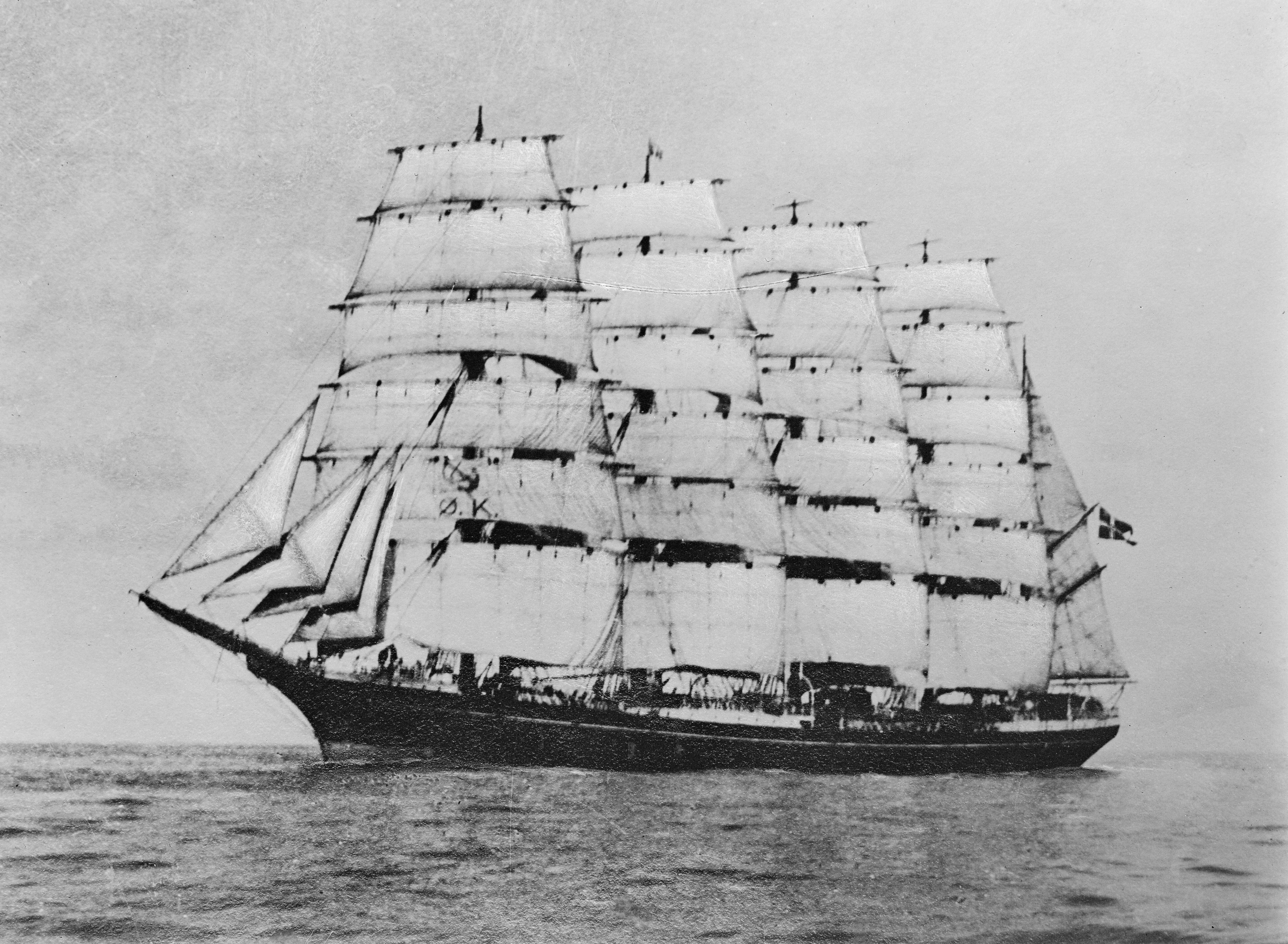 The København in full sails.